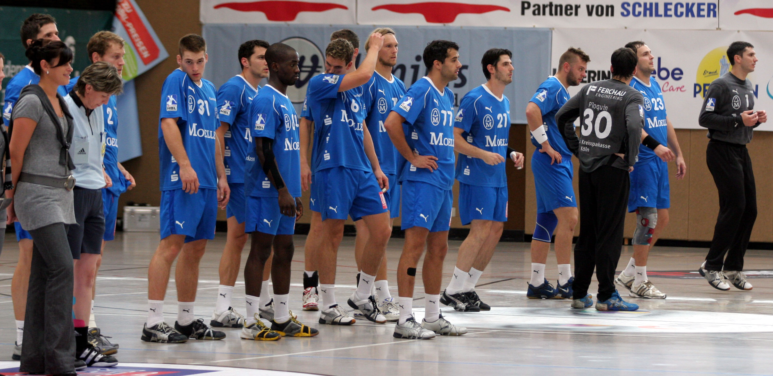 The team of VfL Gummersbach, on August 30th, 2008 in Ehingen prior a game for the Schlecker Cup 2008